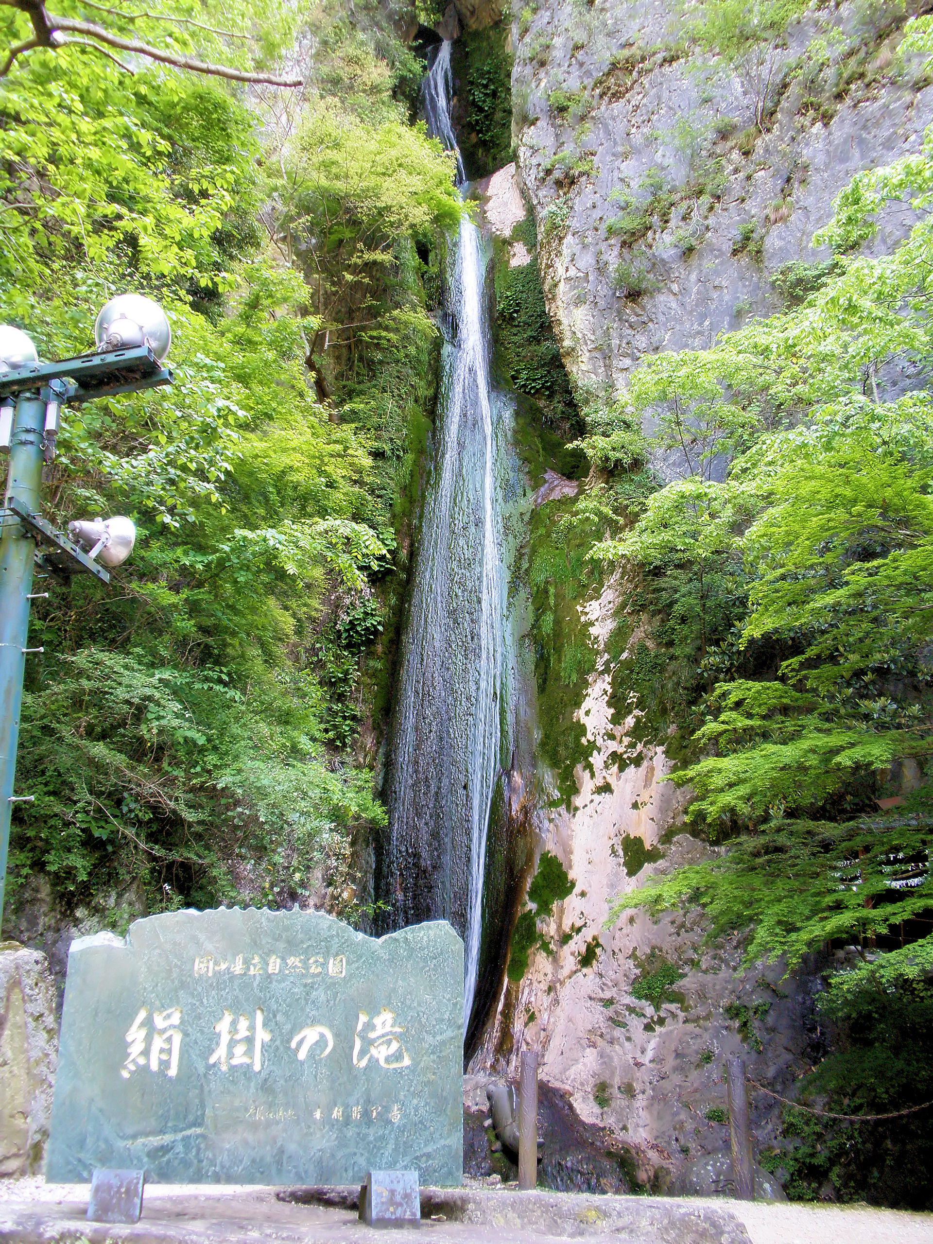 Kinugake falls, Niimi, Okayama.